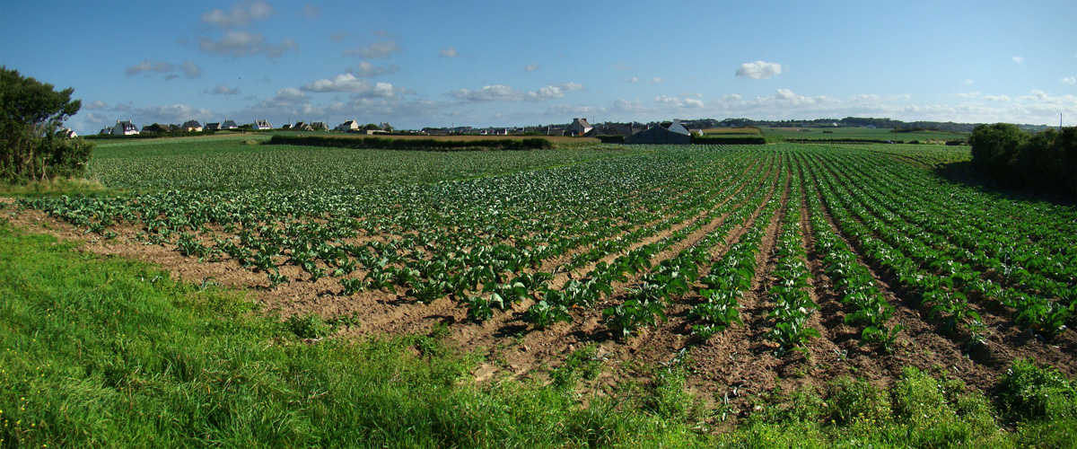 Artichoke fields near Plouescat, Finistère, Bretagne, France.